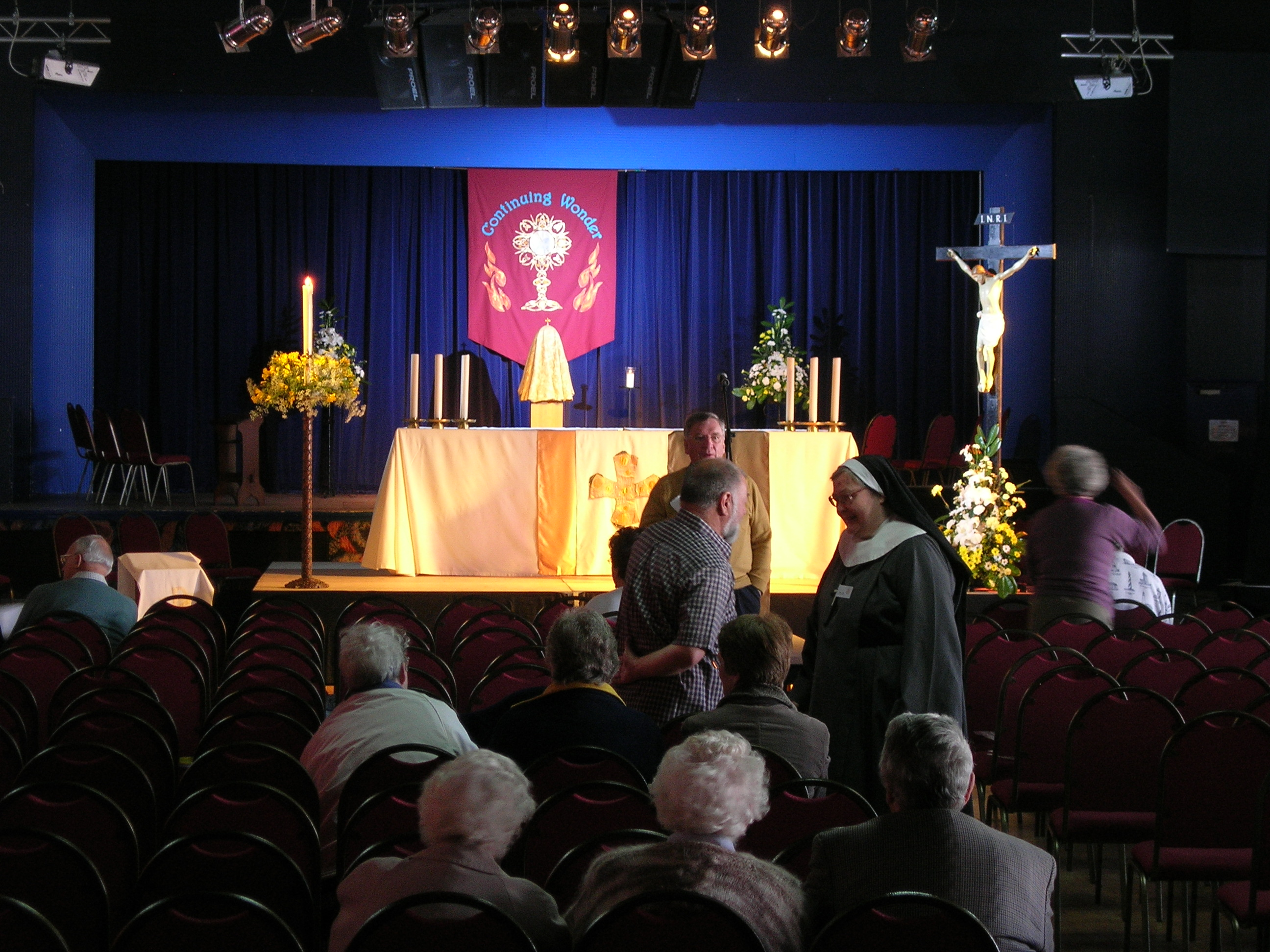 Caister retreat conference 2007 - crowds begin to gather for evening mass.